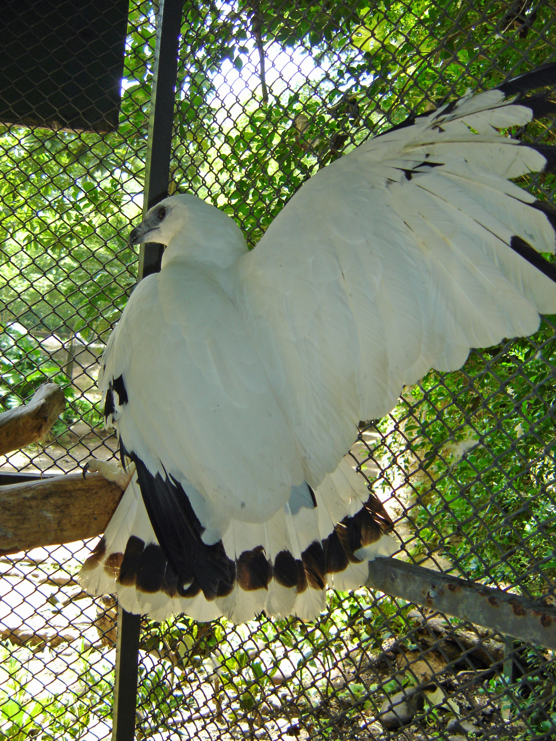 White Hawk in an aviary in Escuintla, Guatemala on 3 September 2004.